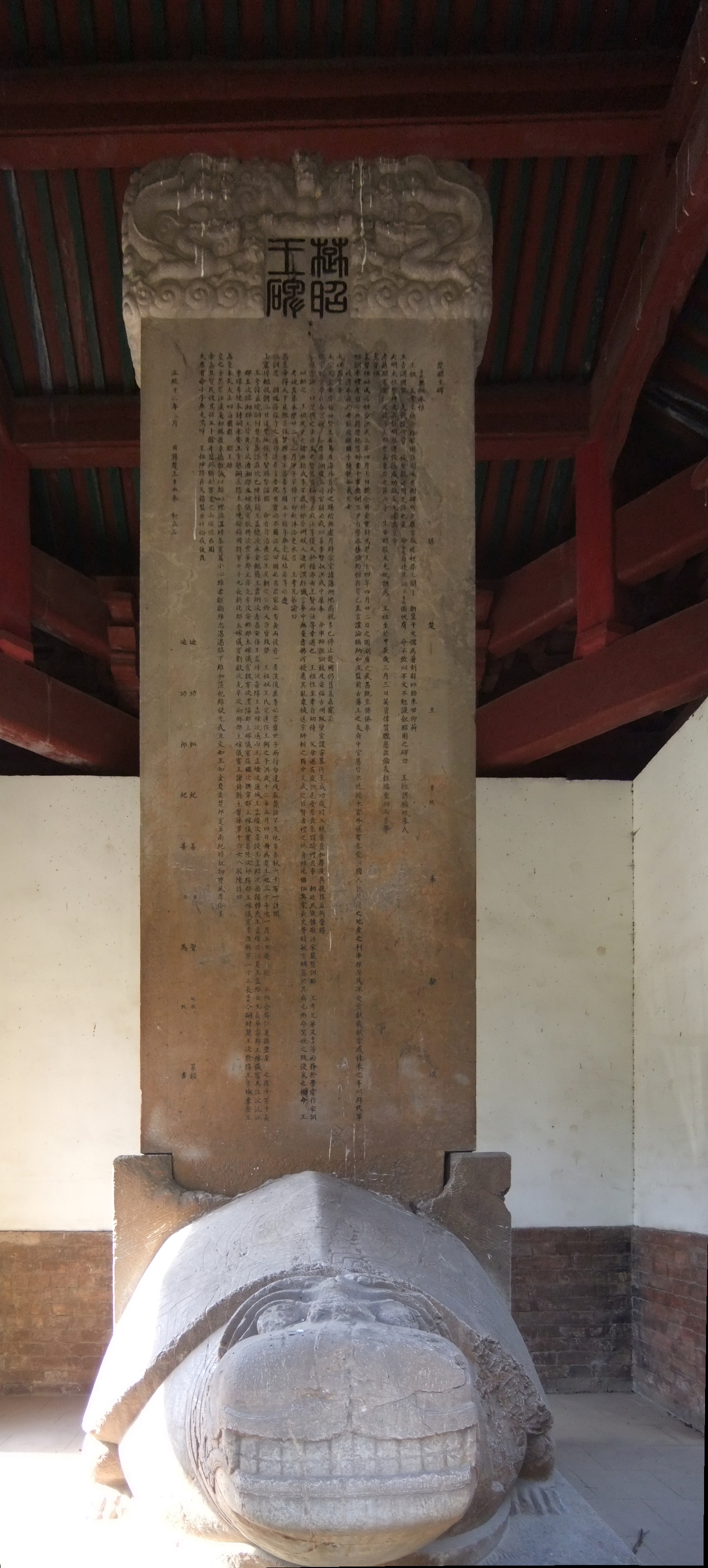 The tortoise-borne stele for Zhao the Prince of Chu (Chu Zhao Wang 楚昭王), also known as Zhu Zhen (朱桢).